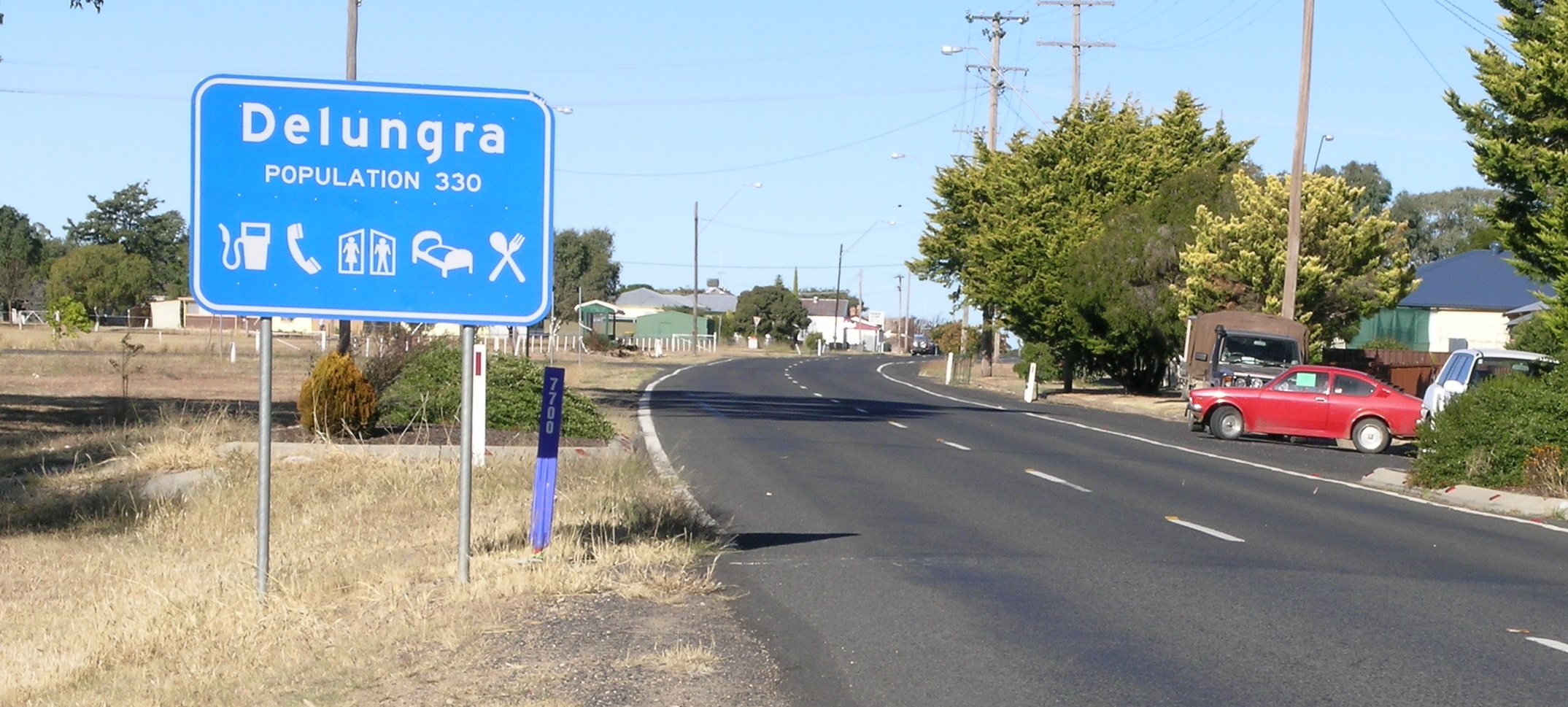 Delungra, NSW